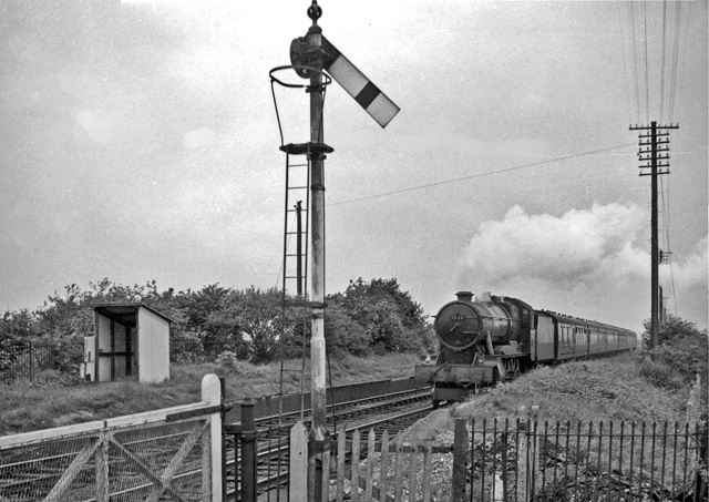 Site of Balderton Station. View NE, towards Chester; ex-GWR Shrewsbury - Chester main line. This station had been closed on 3/3/52. It remained open for goods until 1/11/64, although this is not apparent from the photograph, which shows a typical GWR Up express (headed by a 'County' class 4-6-0) and GWR lower-quadrant signal. The station also included one end of the Eaton Hall Railway, one of the first 15 inch gauge lines